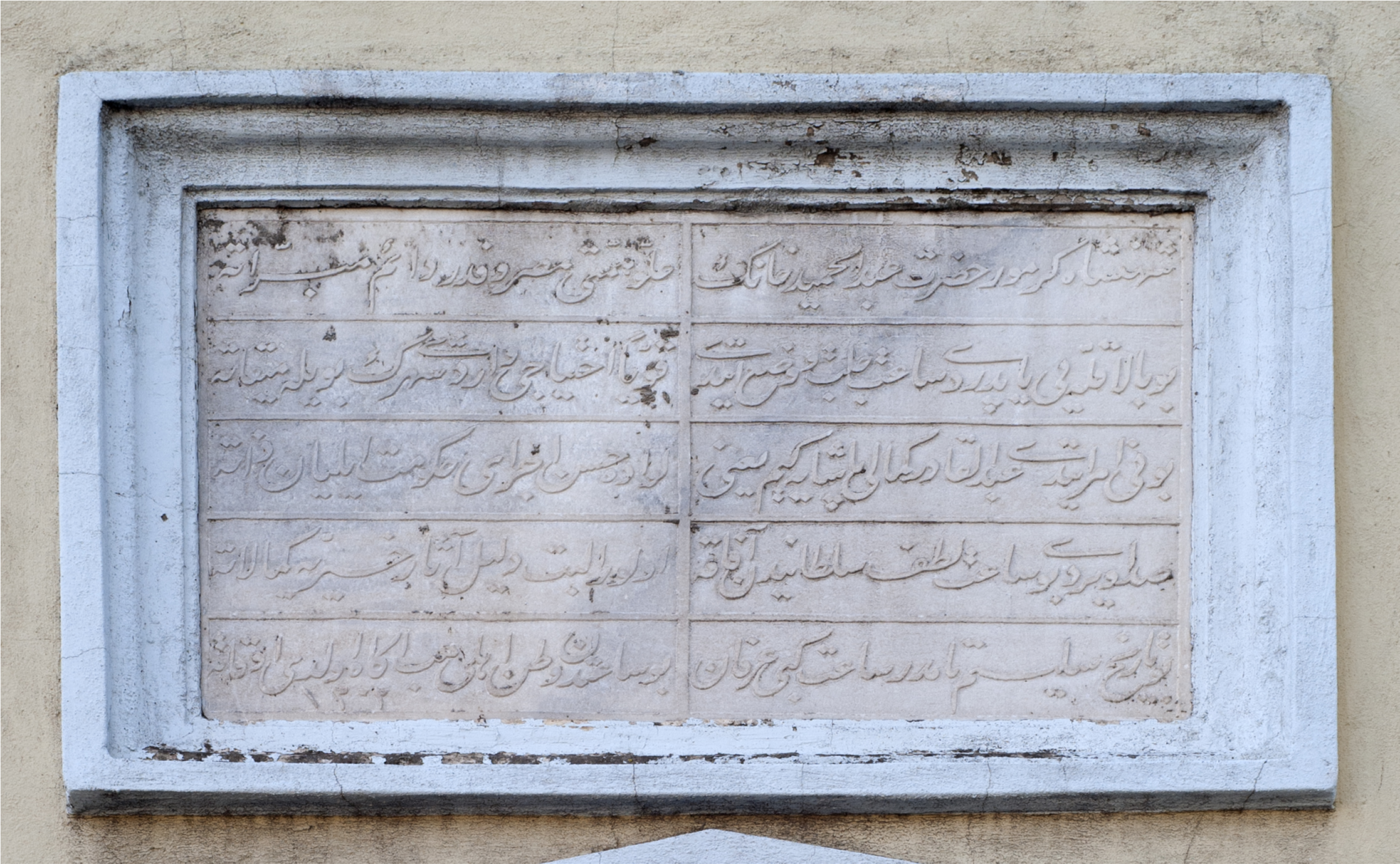 Ottoman inscription in arabic - Clock tower, Komotini, West Thrace, Greece.